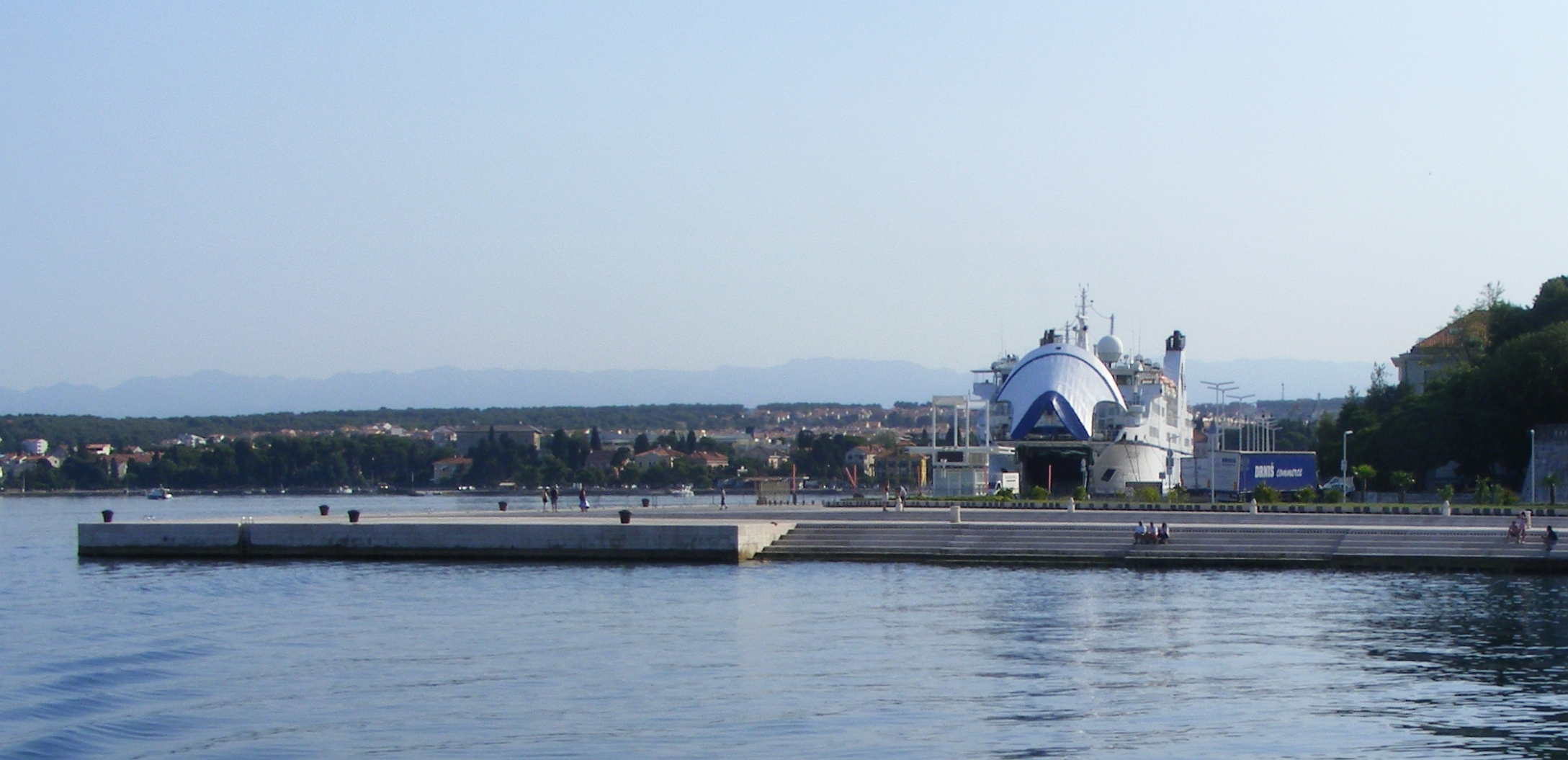 Zadar: sea pipe-organ (architect Nikola Bašić)